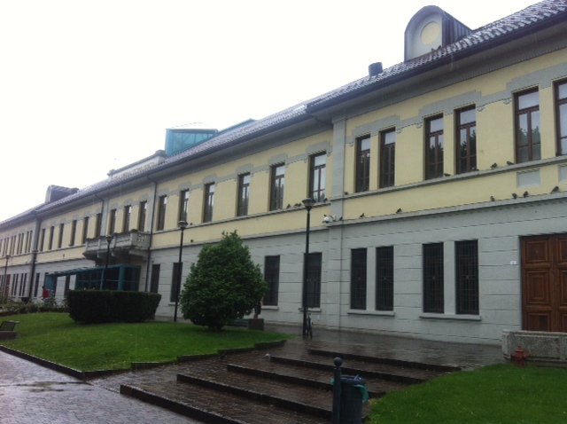 Palazzo Vittorio Veneto Lissone, biblioteche